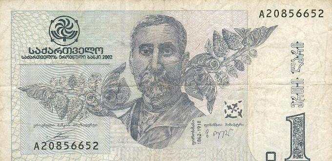 Georgian 1 lari.